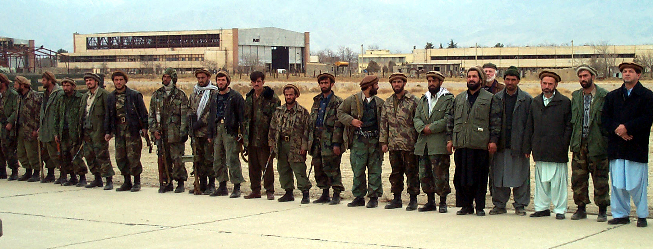 Northern Alliance troops line a runway at Bagram Air Base